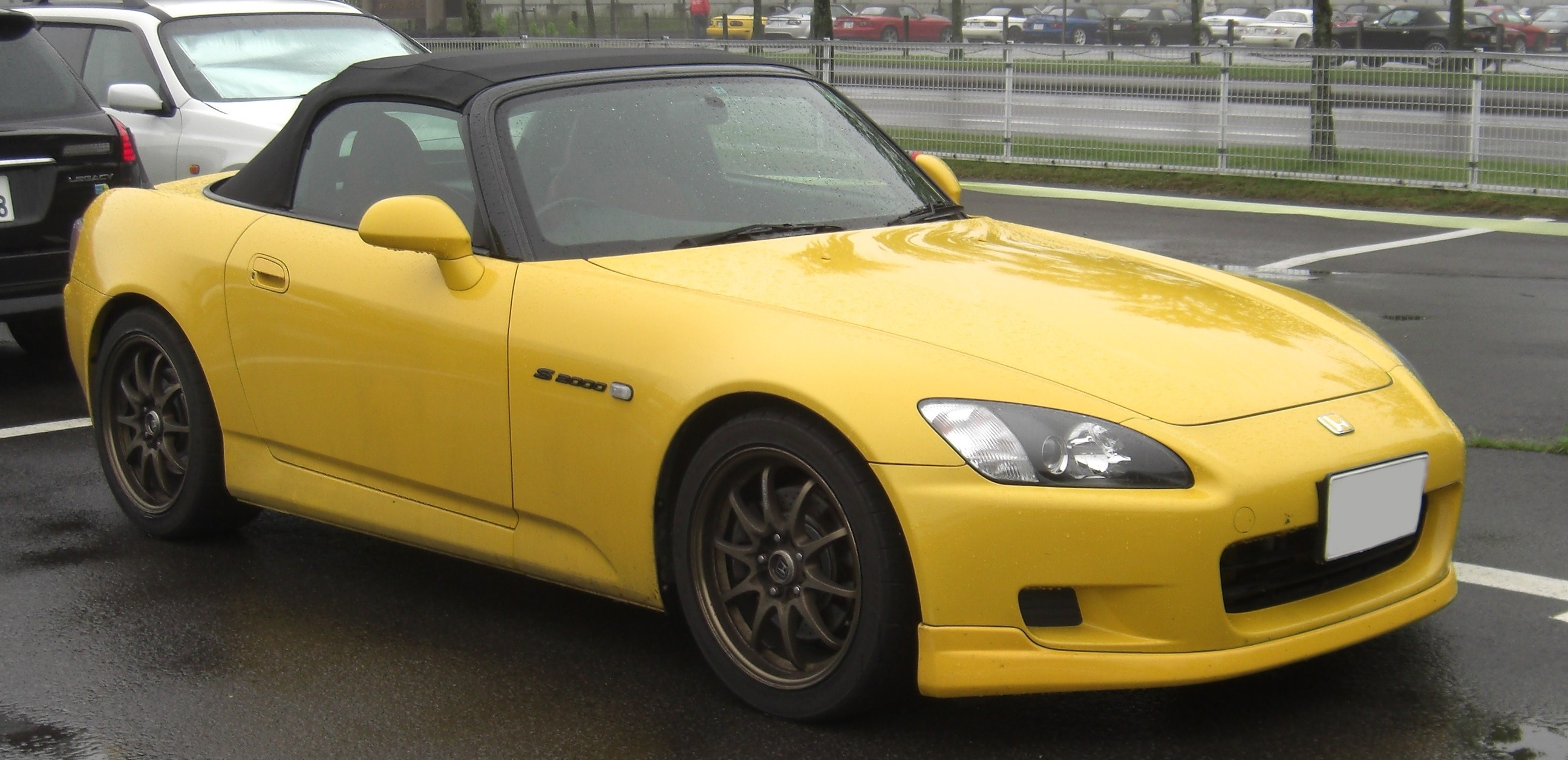 Honda S2000